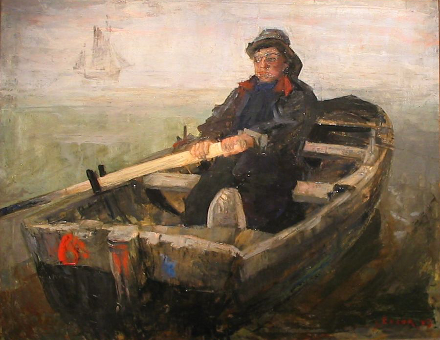 Self-made photo from KMSKA (Royal Gallery), Antwerp, which permits photography without flash. Date of painting: 1883.